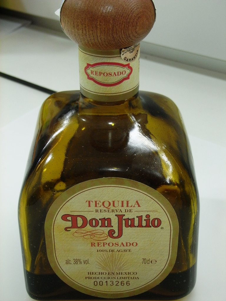 Photo of a bottle of Tequila Don Julio (Reposado variety), 20% full